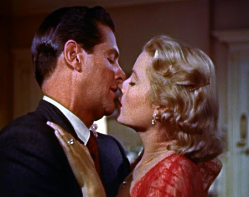 Robert Cummings & Grace Kelly in Dial M for Murder - trailer (cropped screenshot)